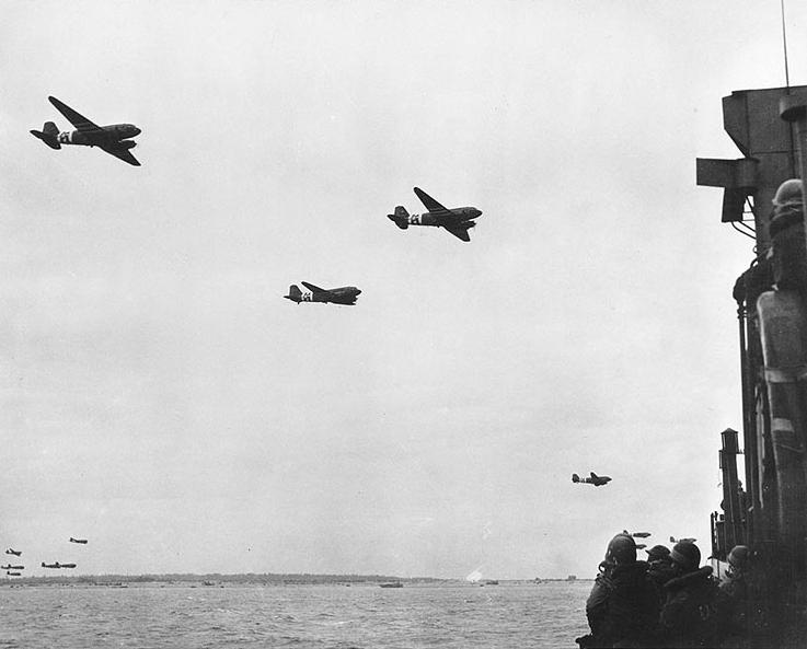 U.S. Army Air Forces Douglas C-47 Skytrain transport planes fly low over a U.S. Coast Guard manned LCI(L) off "Utah" Beach, during the Normandy invasion, circa 6 June 1944.